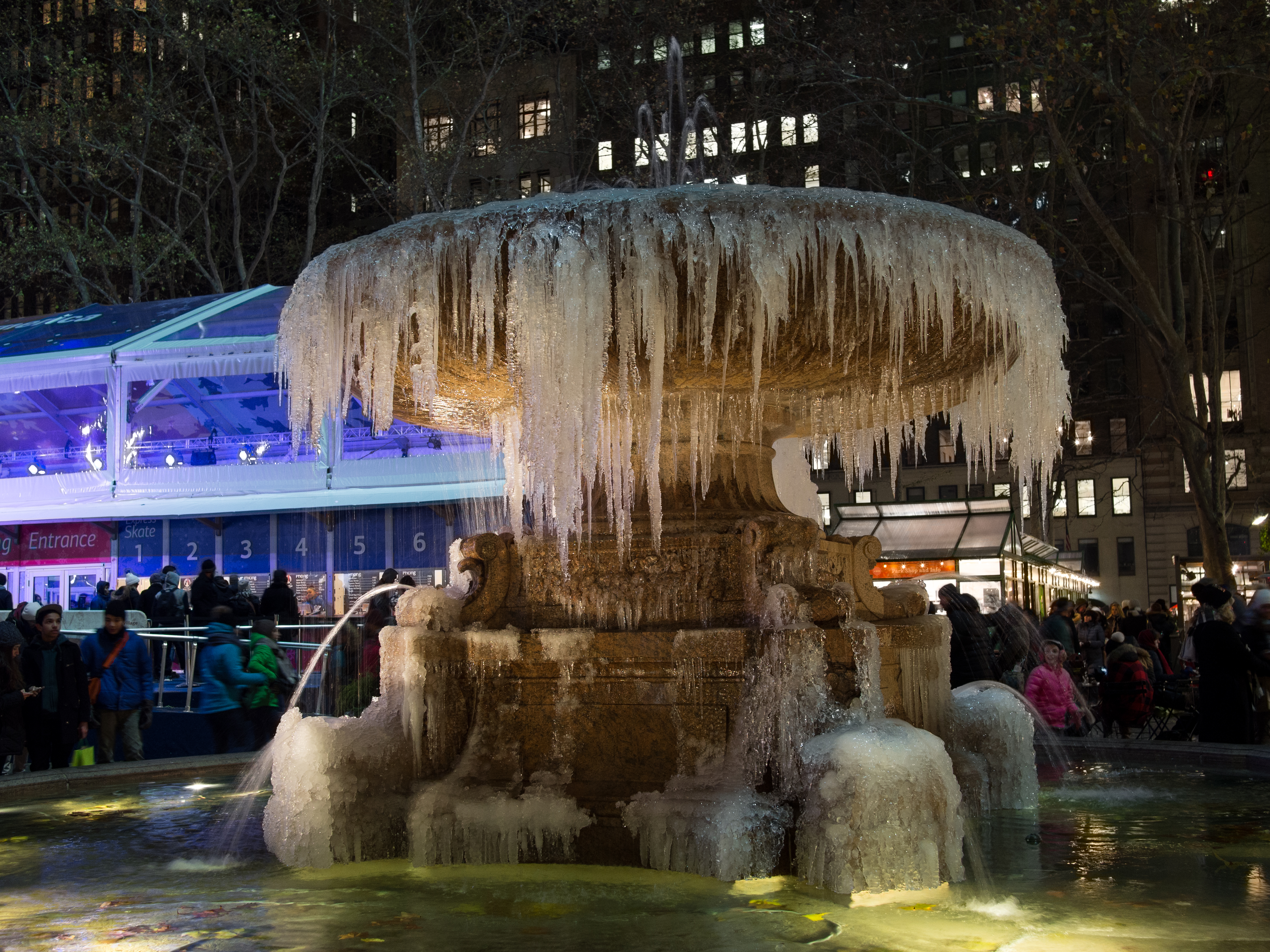 Bryant Park Winter Village and the Josephine Shaw Lowell Memorial Fountain (frozen) in Manhattan. Taken on a very cold day in December 2016.